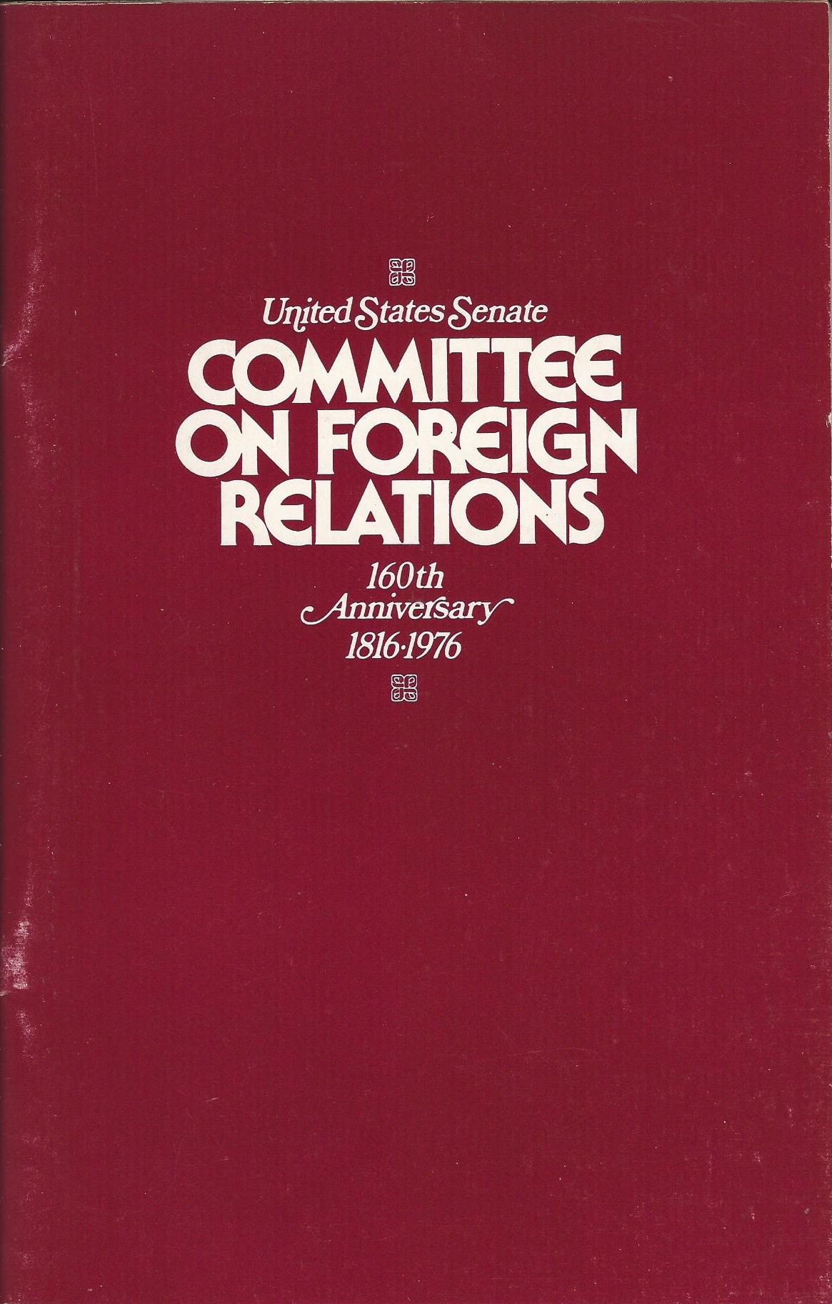 Cover of a 74-page publication giving the history of the first 160 years of the United States Senate's Foreign Relations Committee.